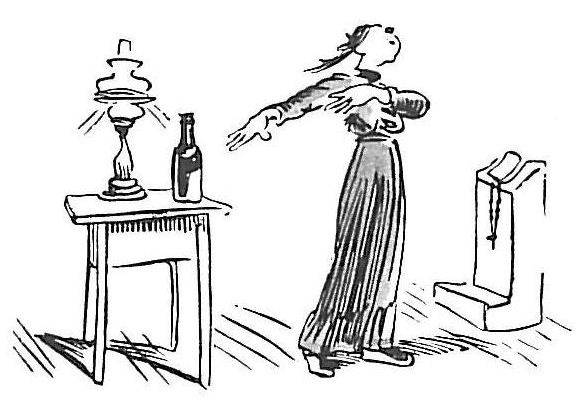 drawing by Wilhelm Busch